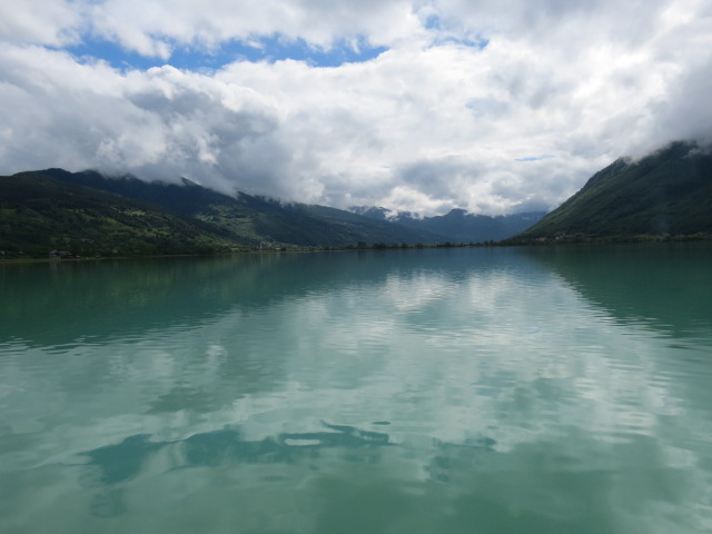 Lake Plav in Plav (Montenegrin: Plavsko jezero), in North-East-Montenegro.